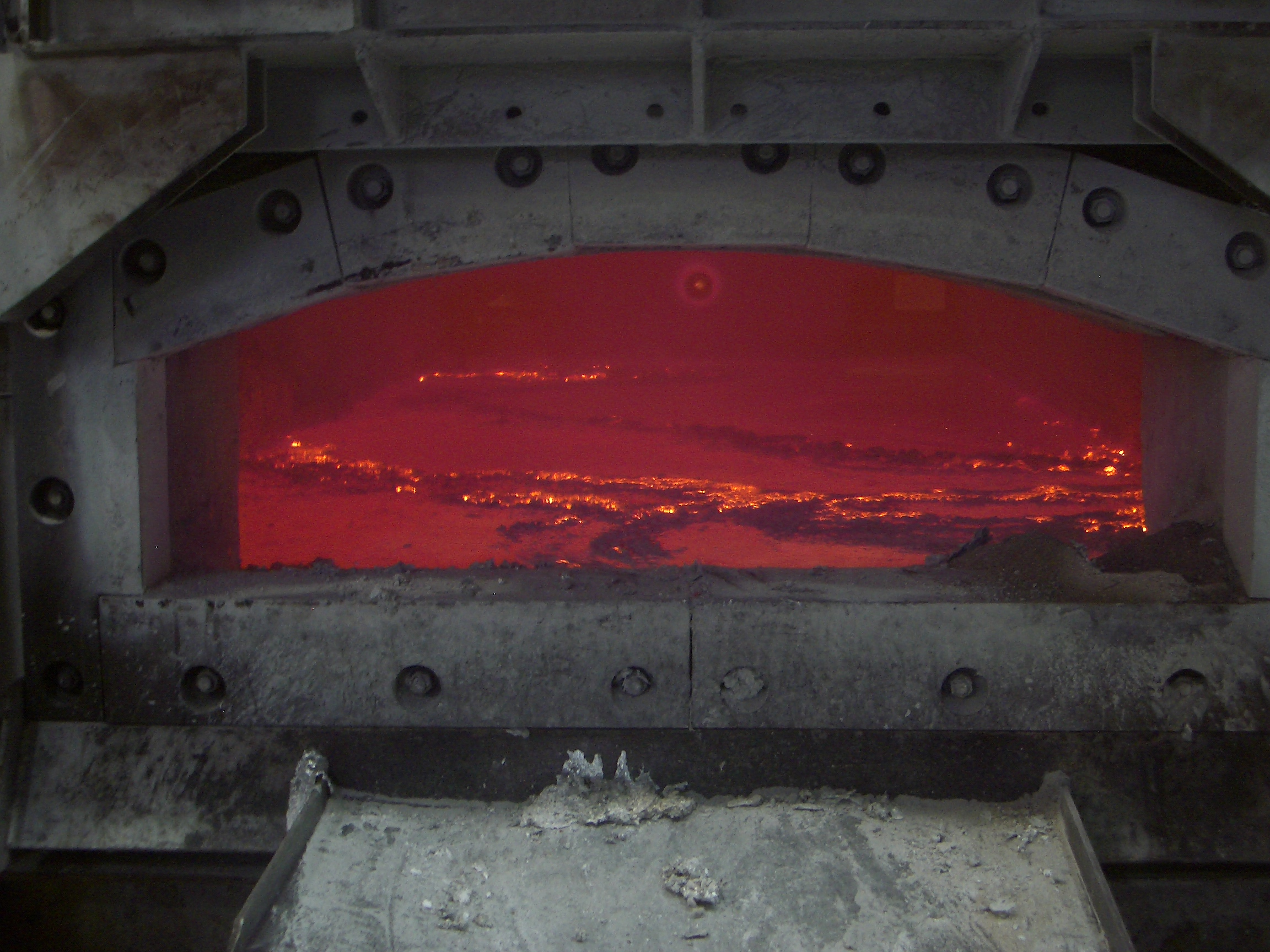 Aluminum smelting in a tub oven, with oxide layers